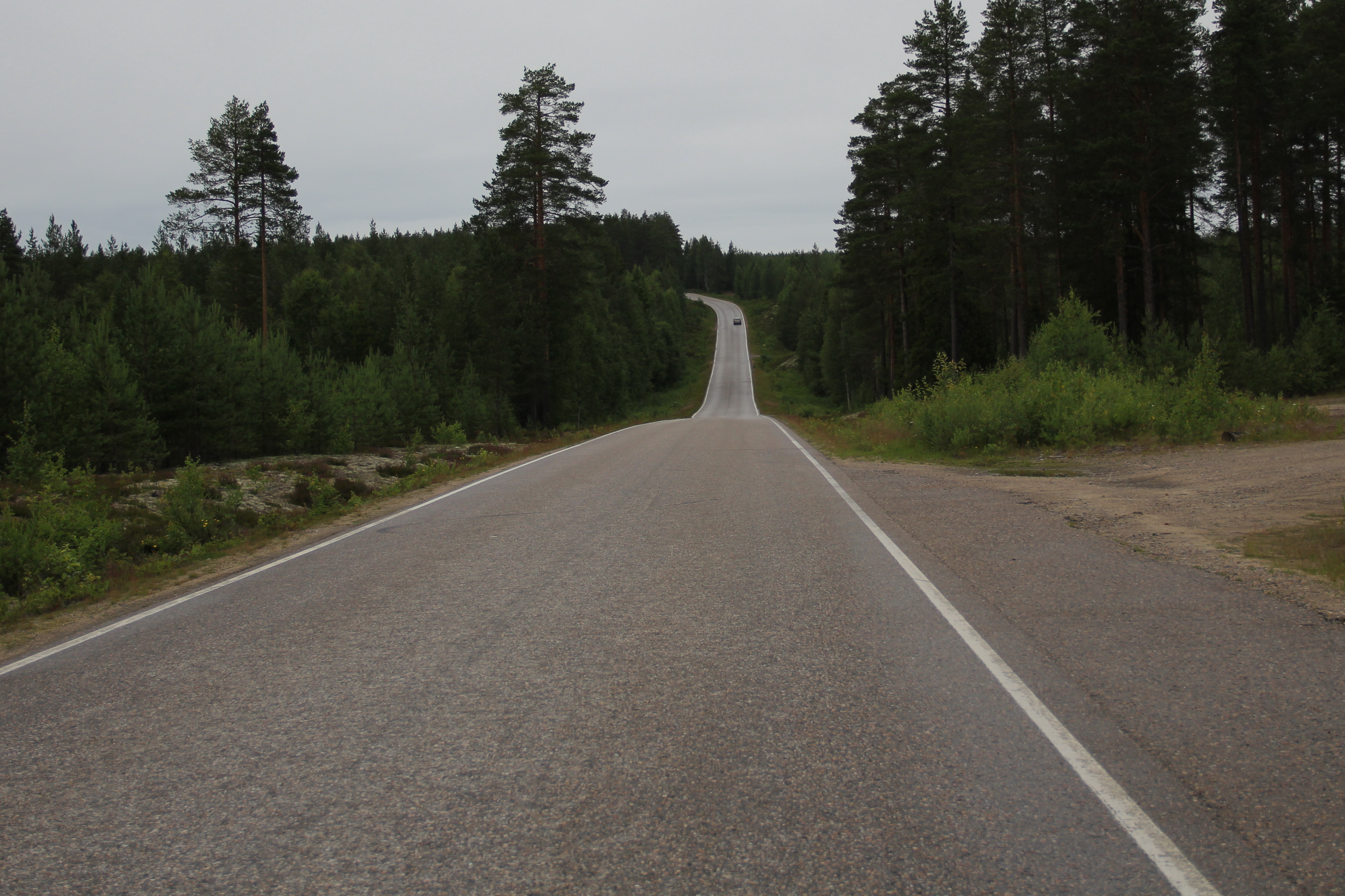 Regional road 888, Ristijärvi, Finland.- Looking northwest near Hyrynsalmentie (connecting road 8890) crossing.